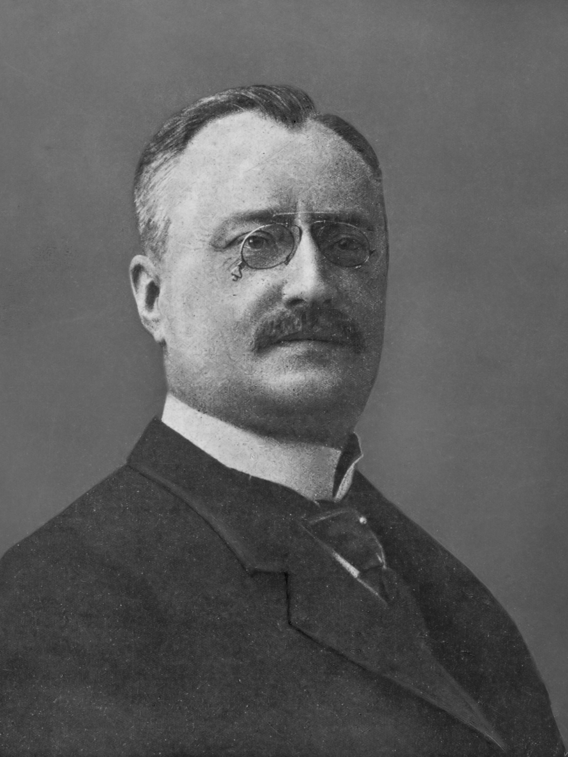 C.J.K. van Aalst, de nieuw benoemde president van de Nederlandse Handel-Maatschappij te Amsterdam 1912